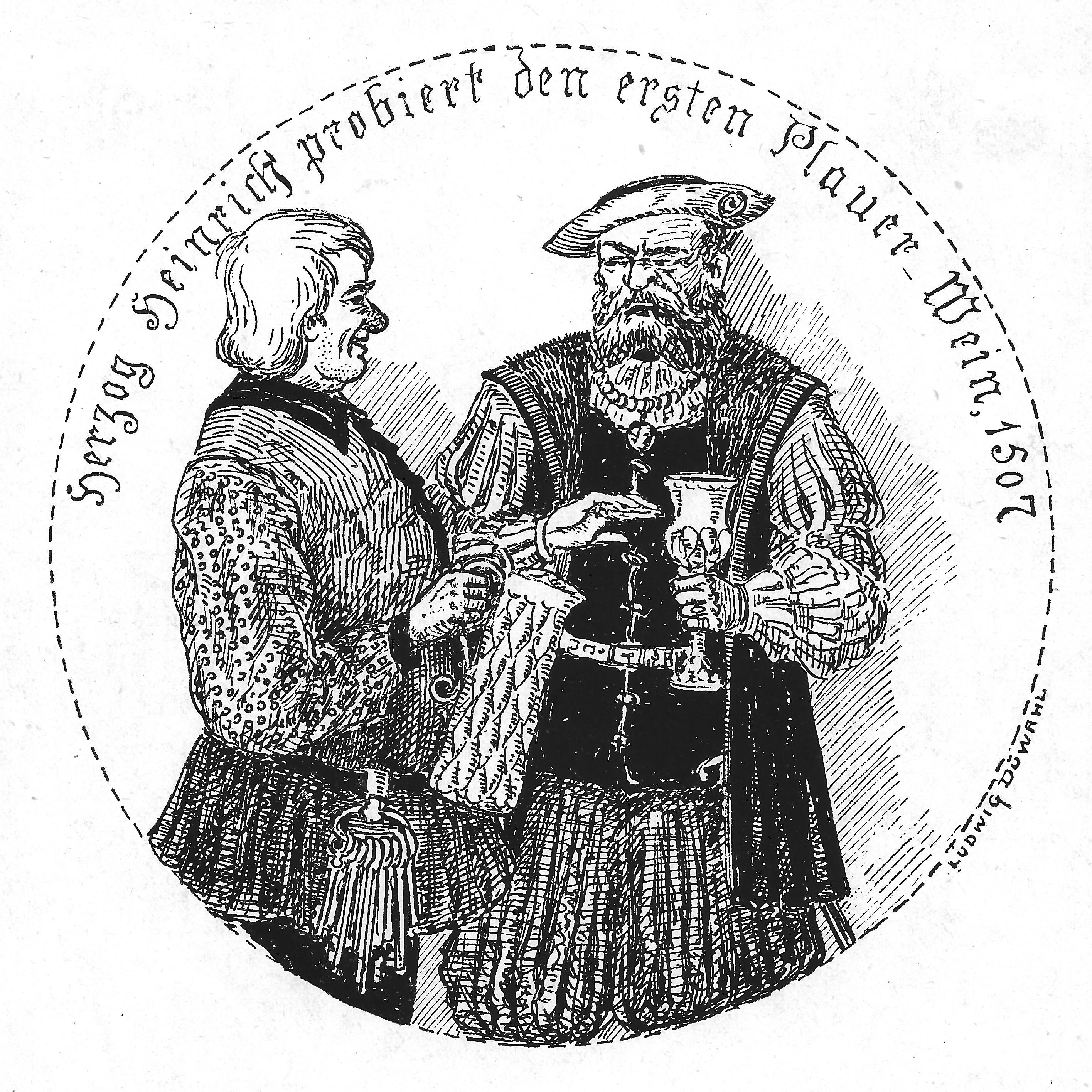 Wine taste by Duke Henry V. of Mecklenburg - drawing by Ludwig Düwahl